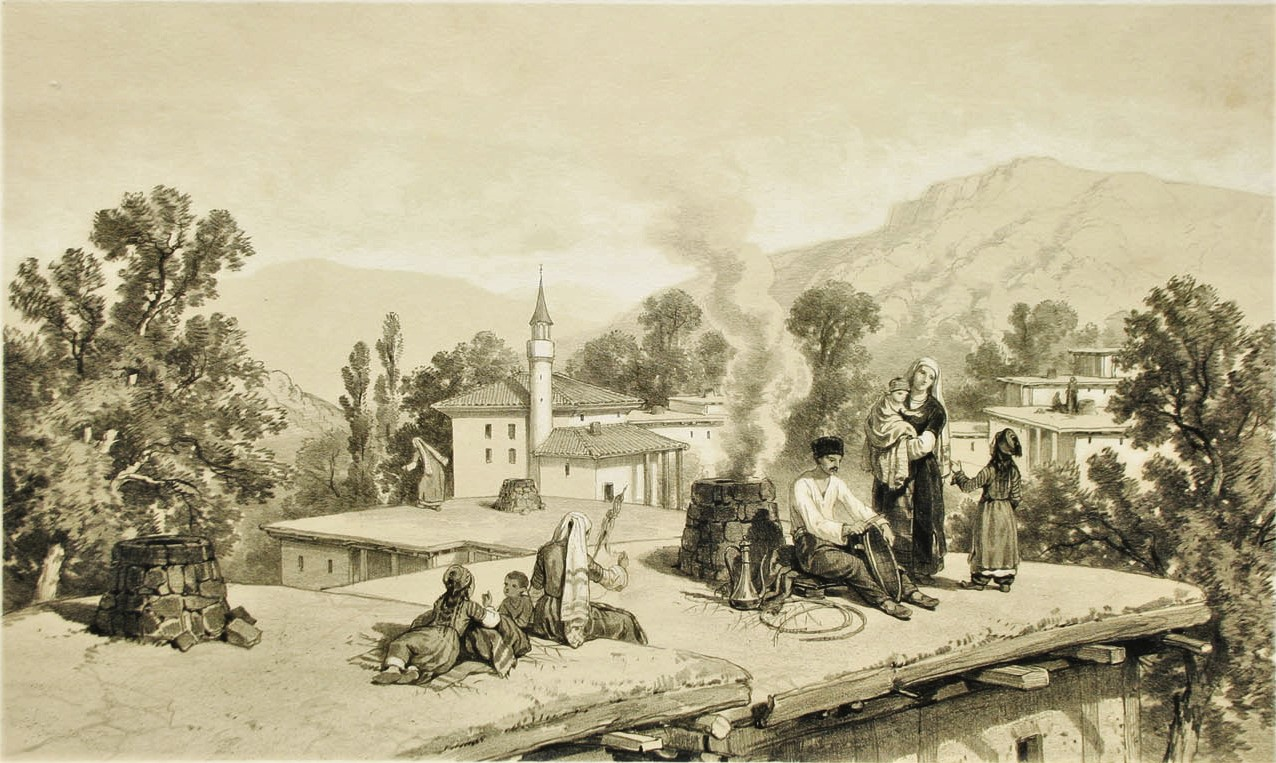 Kapsihor 1843-45